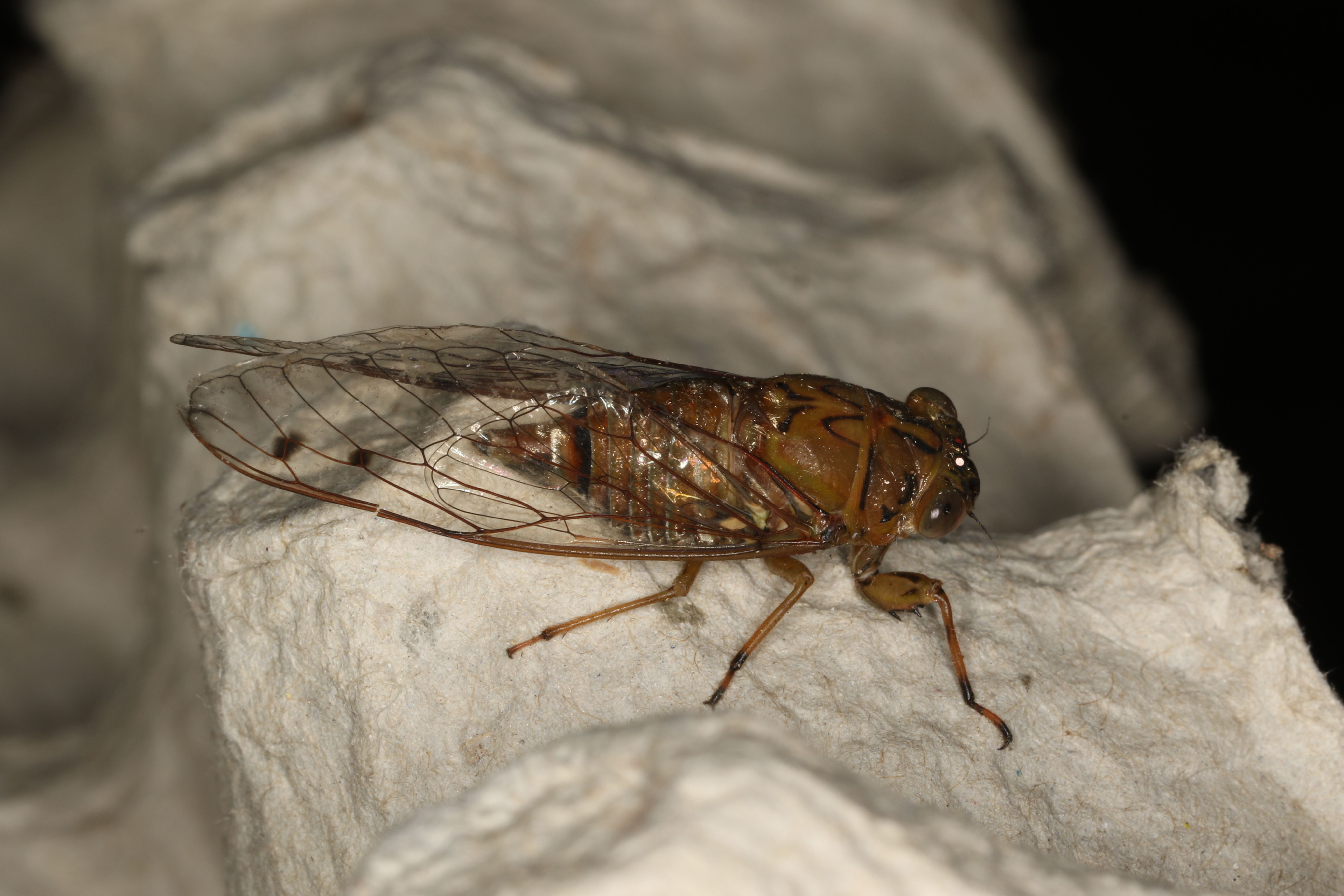 Tamasa tristigma (Germar, 1834), to actinic light, Clump Point, Mission Beach, Queensland, 13/14 January 2016